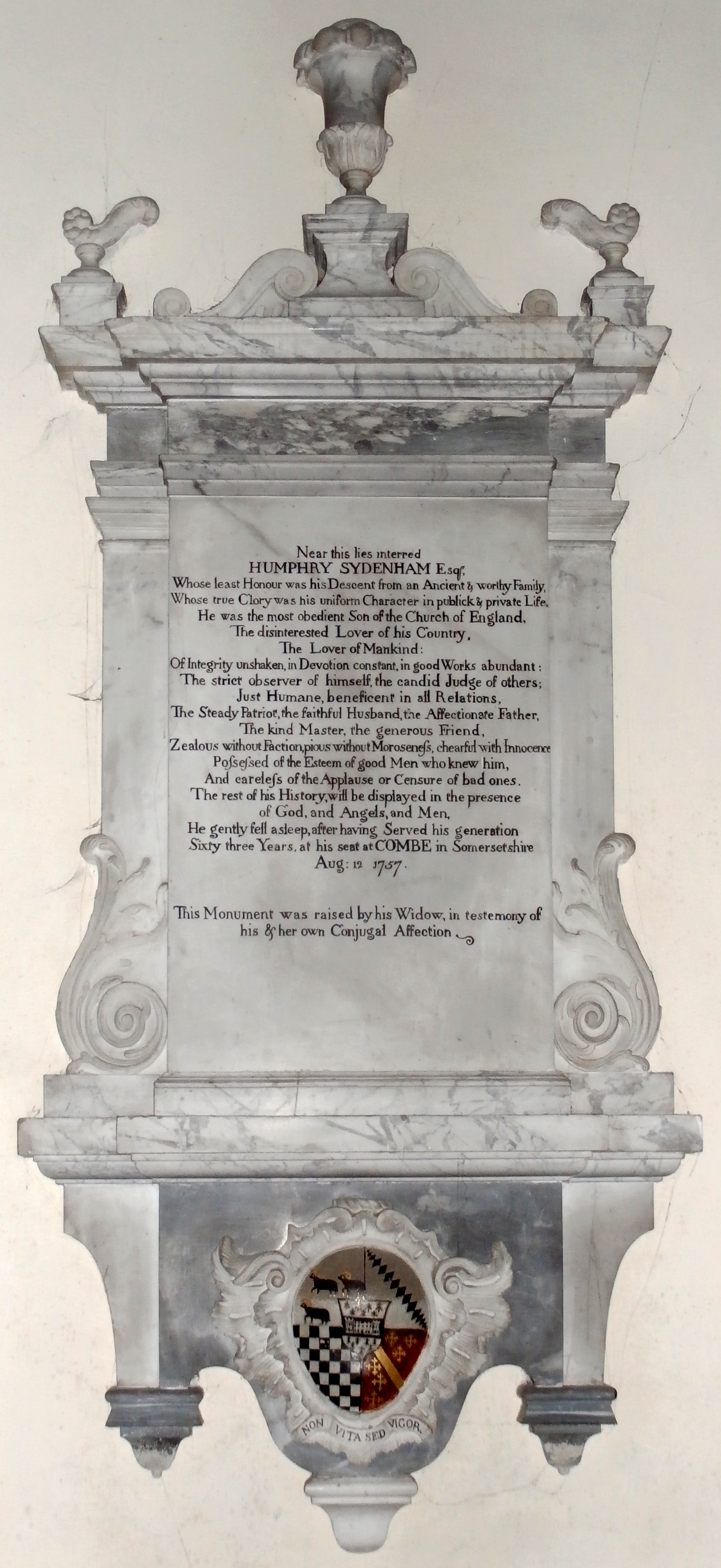 Mural monument on north wall of north aisle of Dulverton Church, Somerset, to Humphrey V Sydenham (1694-1757), "The Learned", of Combe, Dulverton in Somerset and of Nutcombe, Devon, MP for Exeter 1741-1754. Inscribed: "Near this lies interred humphry Sydenham Esqr., whose least honour was his descent from an ancient & worthy family, whose true glory was his uniform character in publick & private life. He was the most obedient son of the Church of England, the disinterested lover of his country, the lover of Mankind; of integrity unshaken, in devotion constant, in good works abundant; the stict observer of himself, the candid judge of others. Just, humane, beneficent in all relations, the steady patriot, the faithful husband, the affectionate father, the kind master, the generous friend; zealous without faction, pious without moroseness, chearful with innocence, possessed of the esteem of good men who knew him, and careless of the applause or censure of bad ones. The rest of his history will be displayed in the presence of God and angels and men. He gently fell asleep after having served his generation sixty-three years, at his seat at Combe in Somersetshire, Aug. 12 1757. This monument was raised by his widow in testemony of his & her own conjugal affection". Underneath are displayed on an escutcheon quarterly of four: 1st: Argent, three rams passant guardant sable (Sydenham); 2nd: Argent, a bend of fusils sable (Kittisford); 3rd: Chequy argent and sable (St Barbe); 4th: Gules, a bend between six cross crosslets or (?). Overall is an inescutcheon of pretence: Ermine, on a fesse sable a castle triple-towered argent (Hill of Kerswell Priory, Broadhembury, a junior branch of Hill of Hill's Court in Shropshire ("Hill's Court" is the present "Court of Hill" in the parish of Nash, South Shropshire))